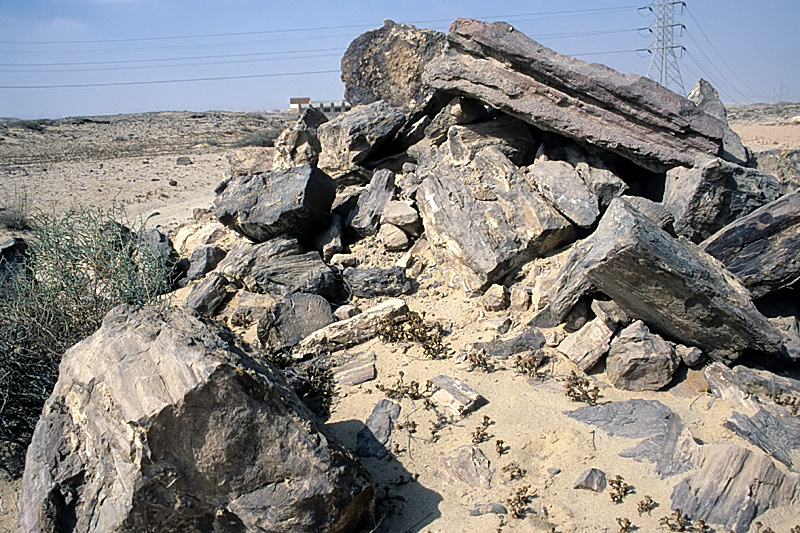 Petrified wood, Petrified Forest Protected Area near el-Maadi, Egypt